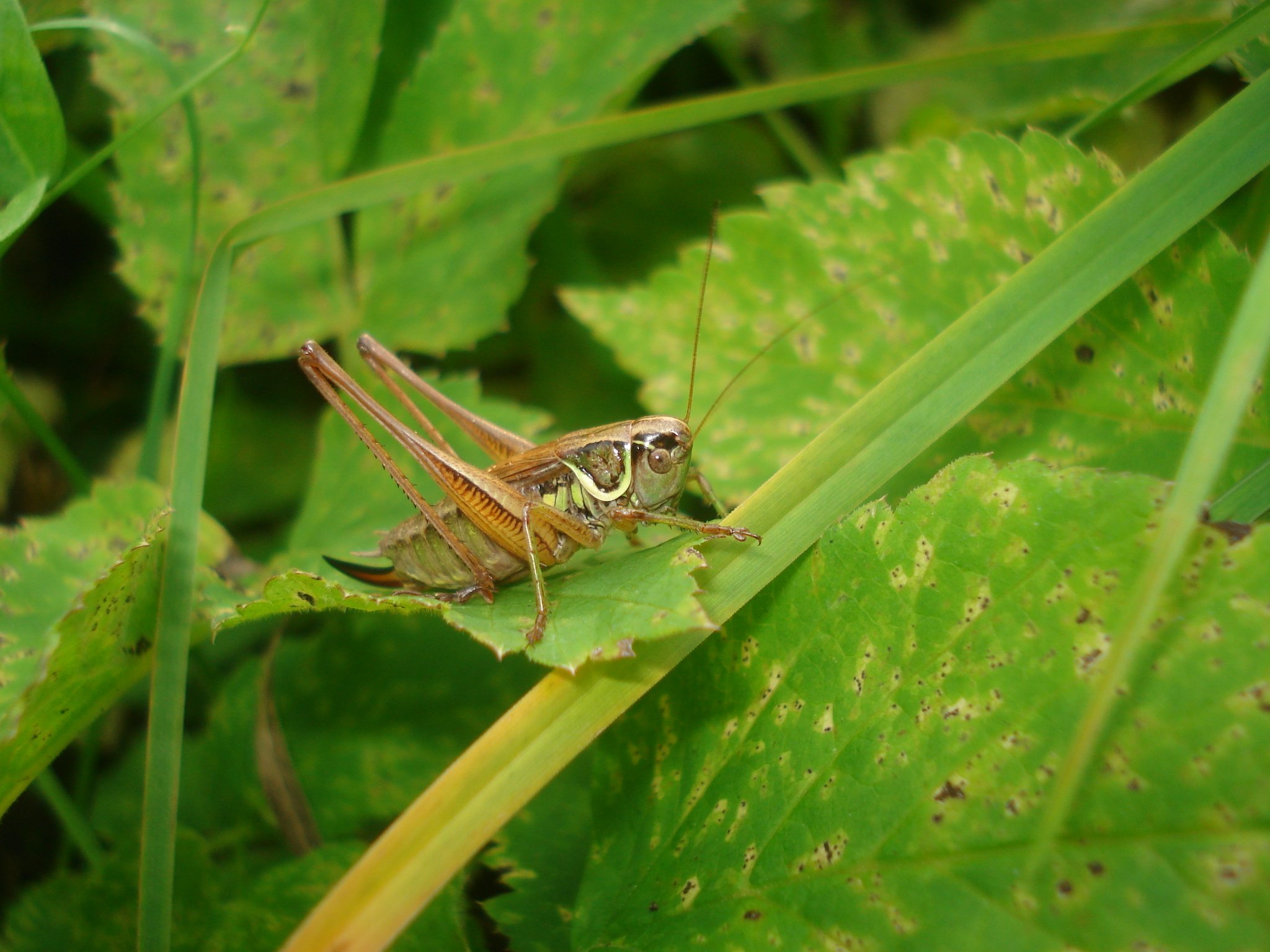 Roesel's Bush Crickets (Metrioptera roeselii)